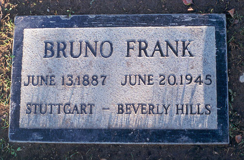 The gravestone of Bruno Frank, located in Glendale, California